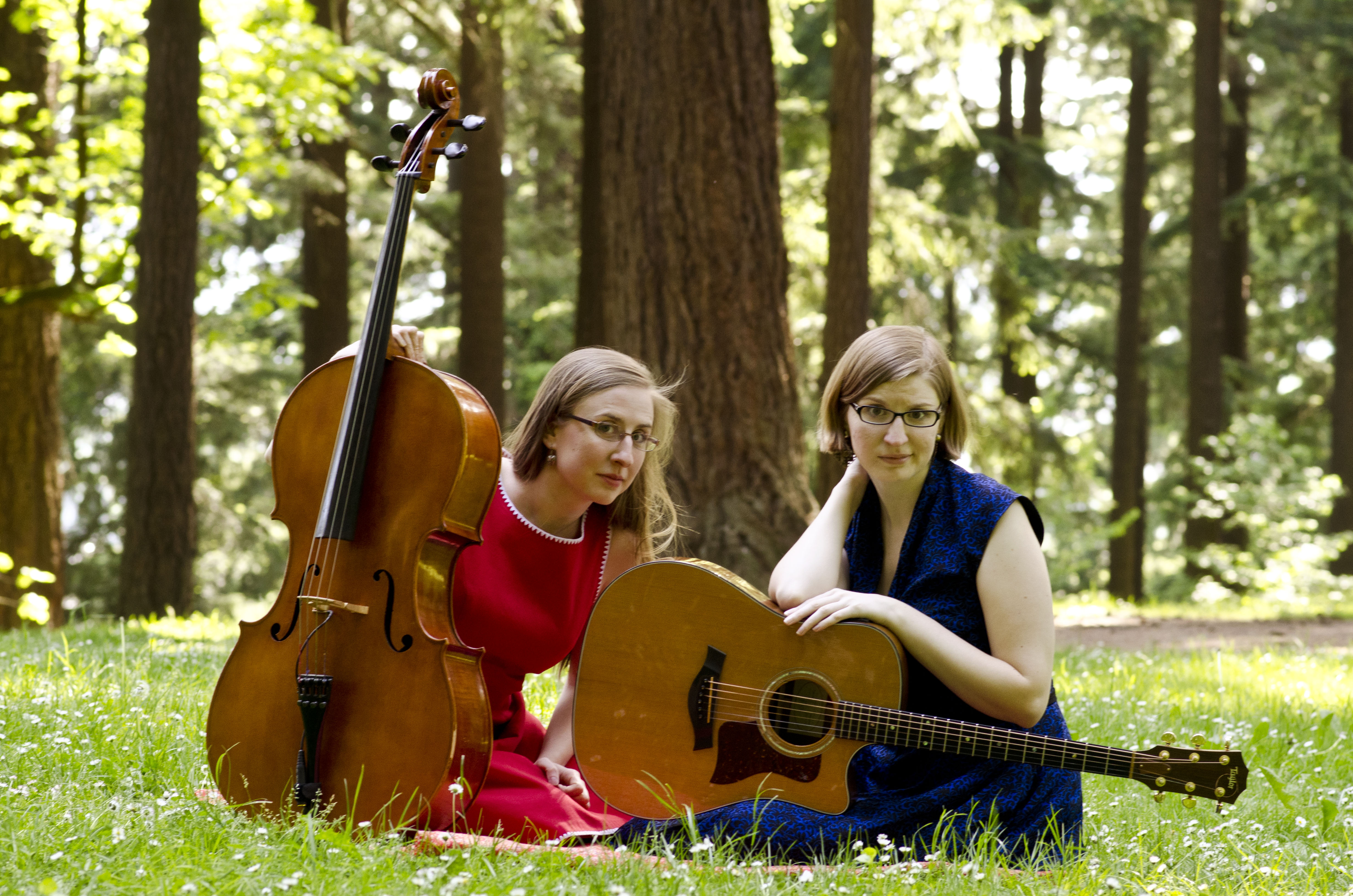 The Doubleclicks: Angela Webber (left) & Aubrey Webber (right)